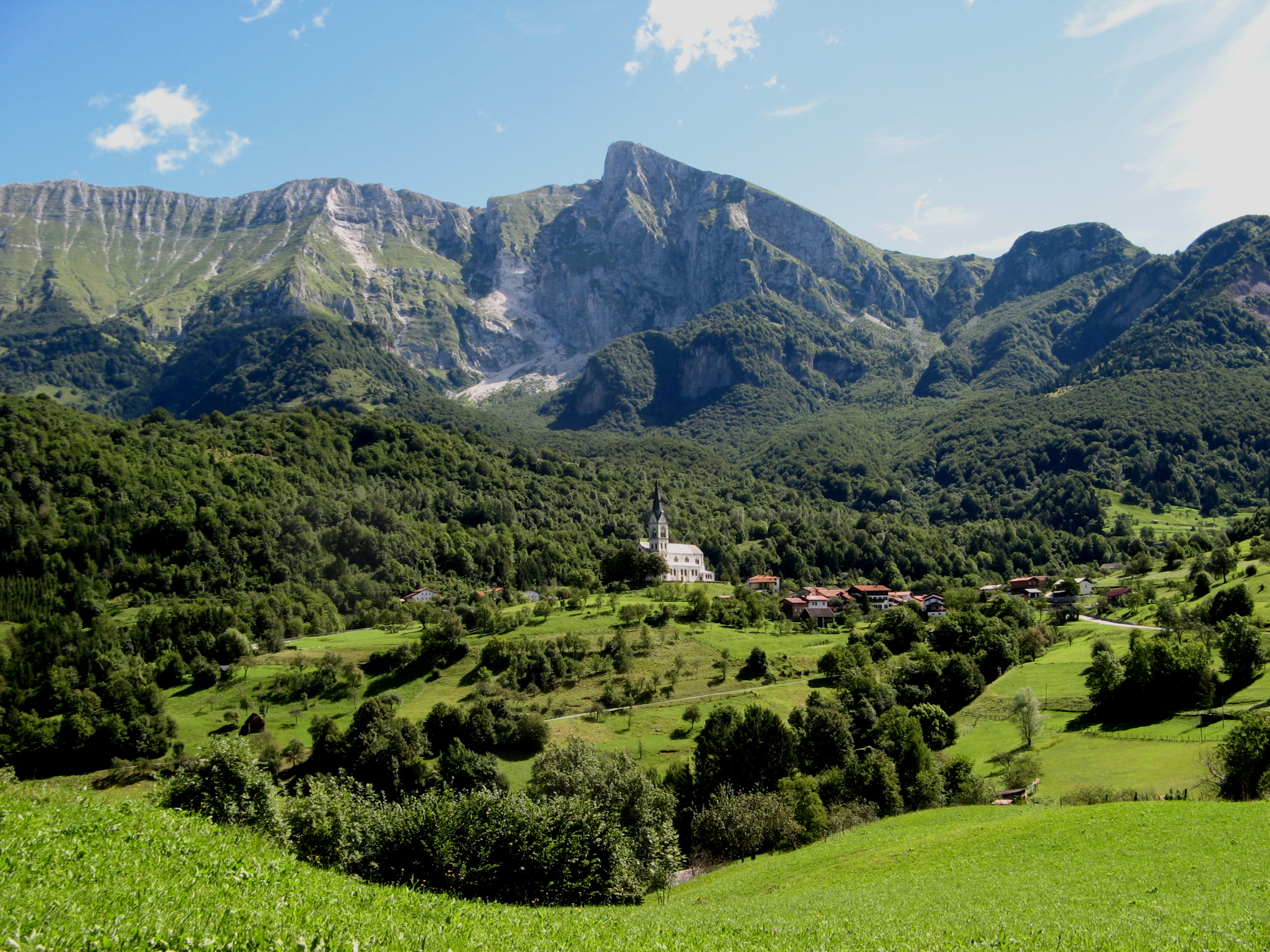 View of Drežnica (Kobarid), Slovenia